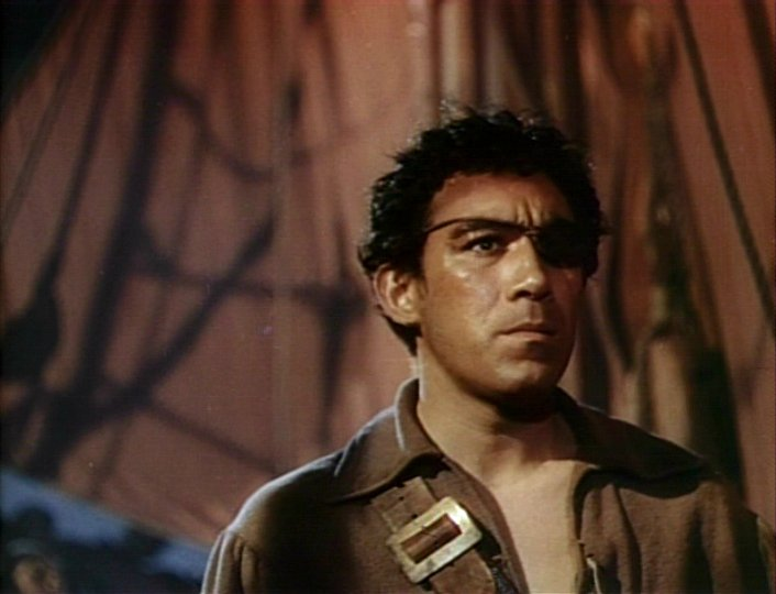 Anthony Quinn in a screenshot from the trailer for the film The Black Swan.